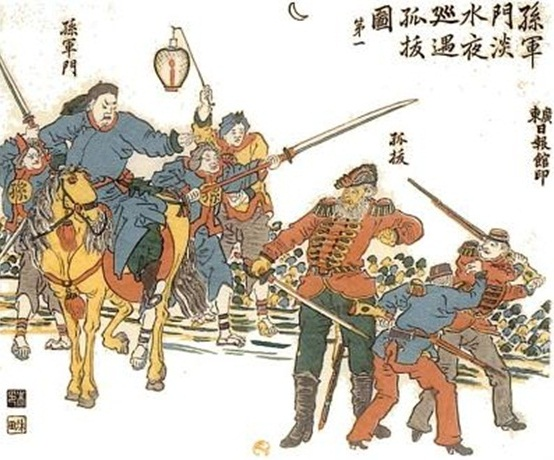 A Chinese nianhua depicting an encounter between Chinese Admiral Sun Junmen and French Admiral Amédée Courbet on a Nightwatch round during the Sino-French War. No copyright law existed in China at that time, image in public domain